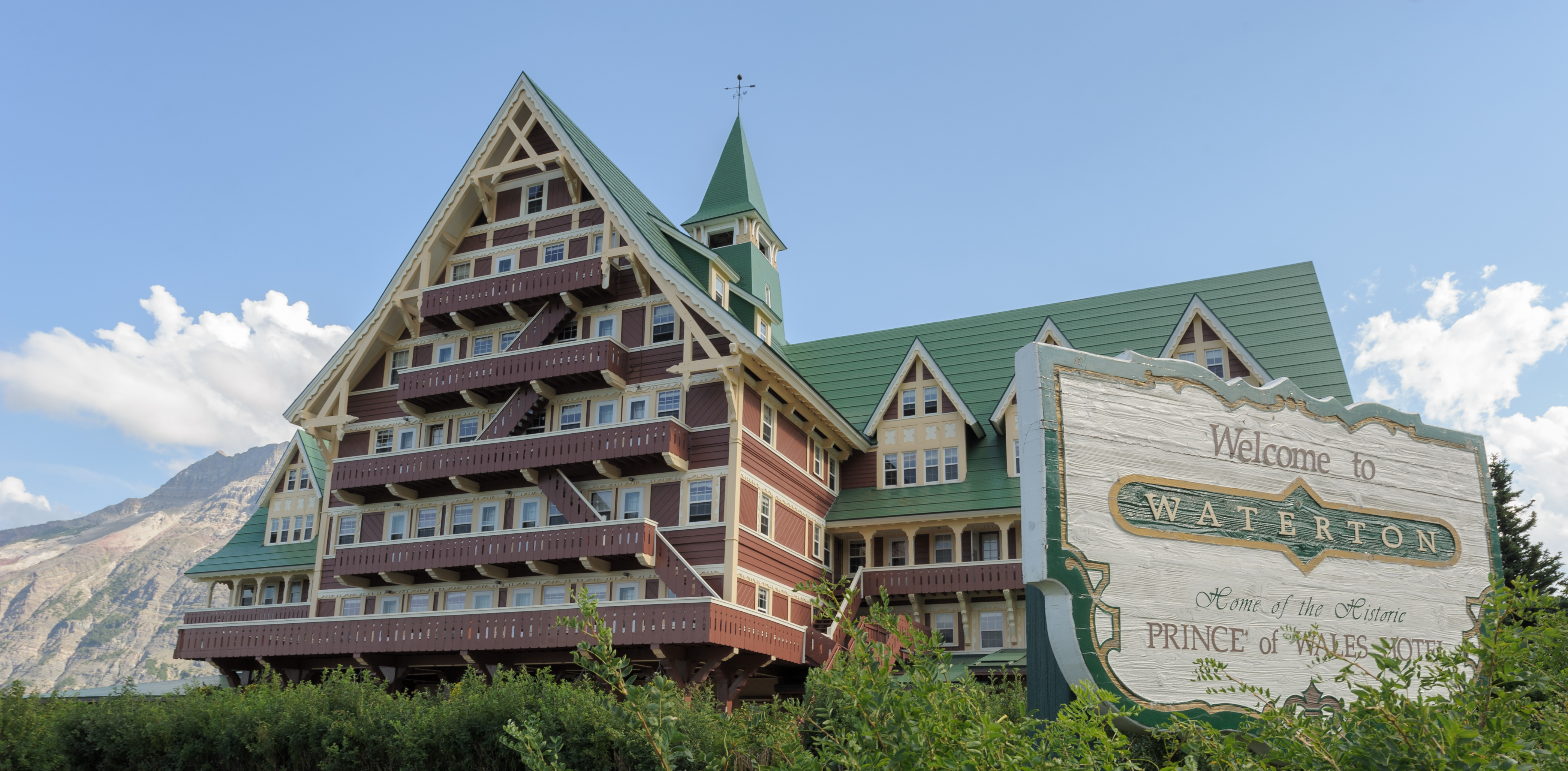 Prince of Wales Hotel, Waterton Lakes National Park, Alberta, Canada